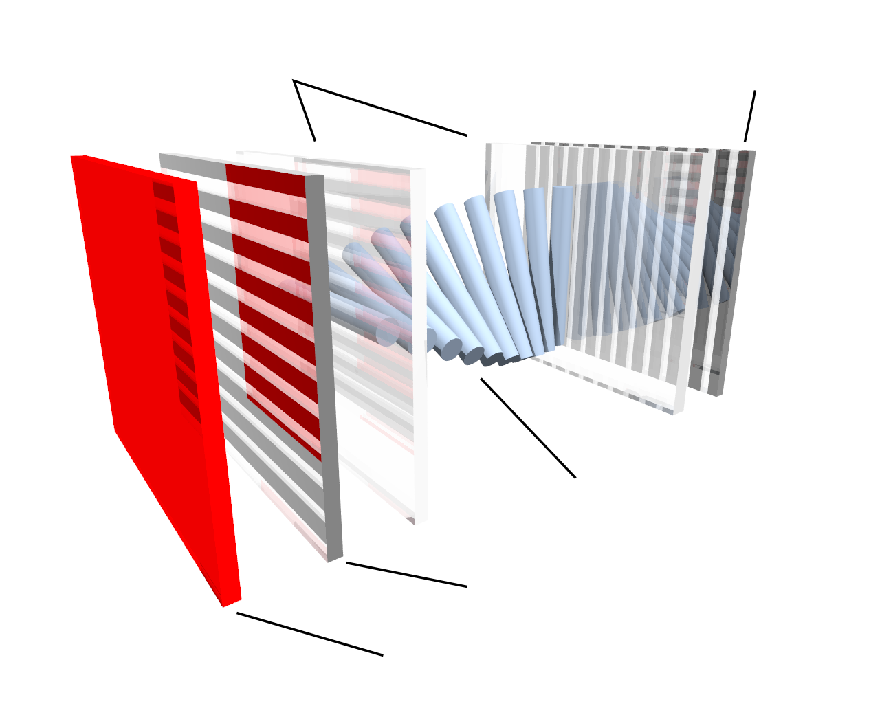 LCD subpixel. It was made using POV-Ray. The POV-Ray source file is released under GPL and can be downloaded from